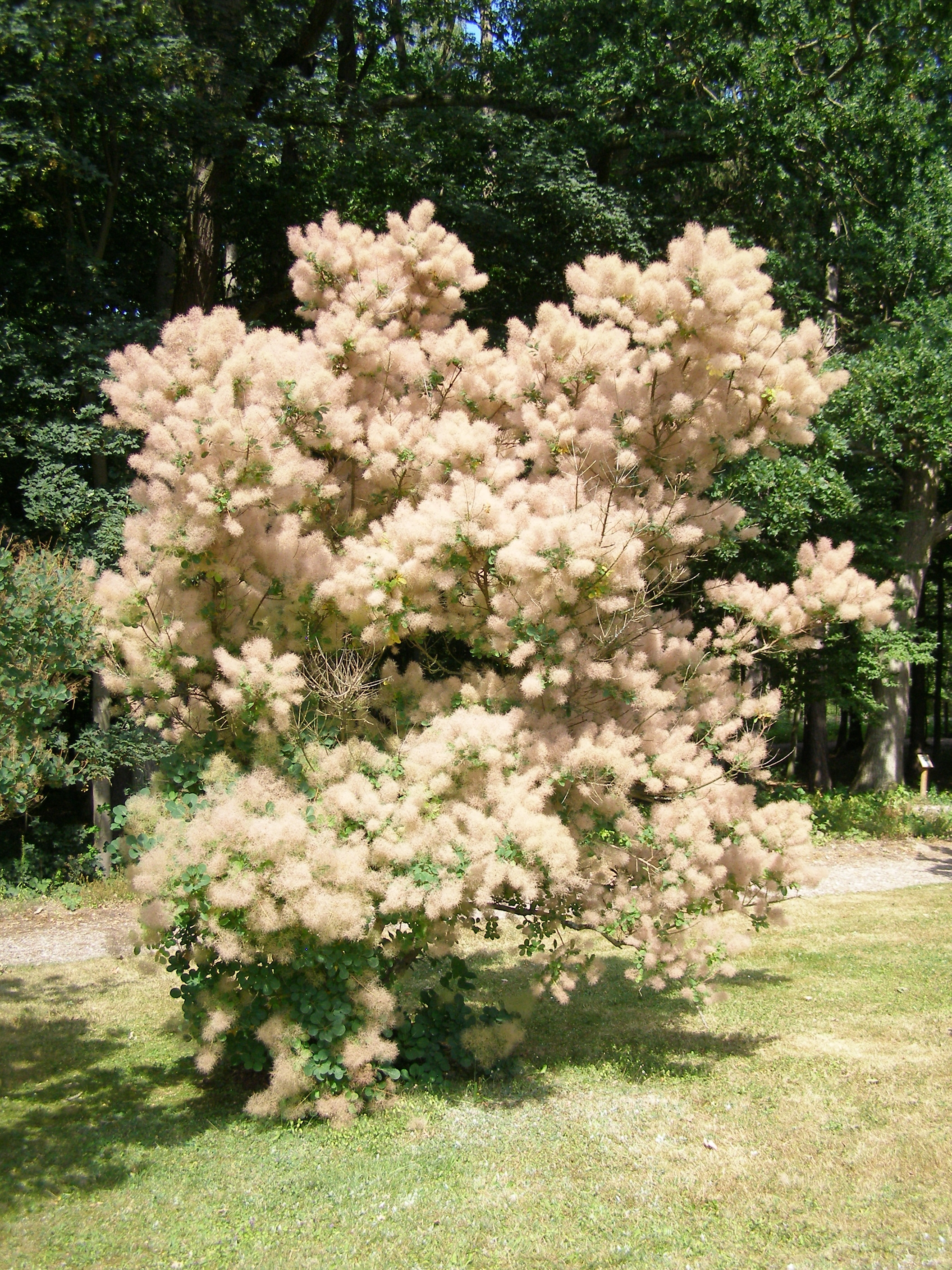 Wirty - Arboretum - Eurasian smoke tree (Cotinus coggygria Scop.)